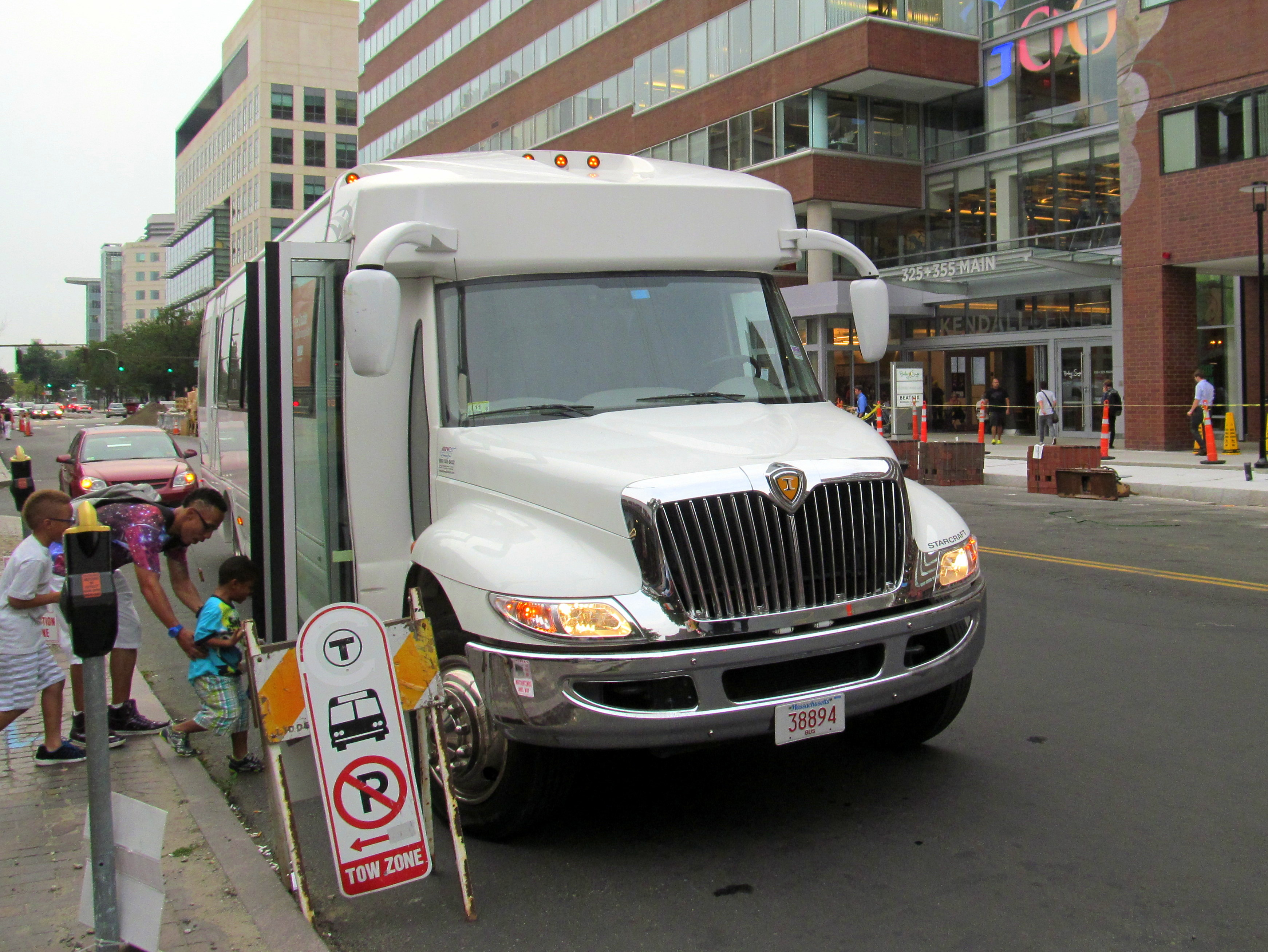 A Cambridgeside shuttle bus boards passengers at Kendall/MIT station in September 2015. The bus is opposite from the normal busway, which was undergoing construction.